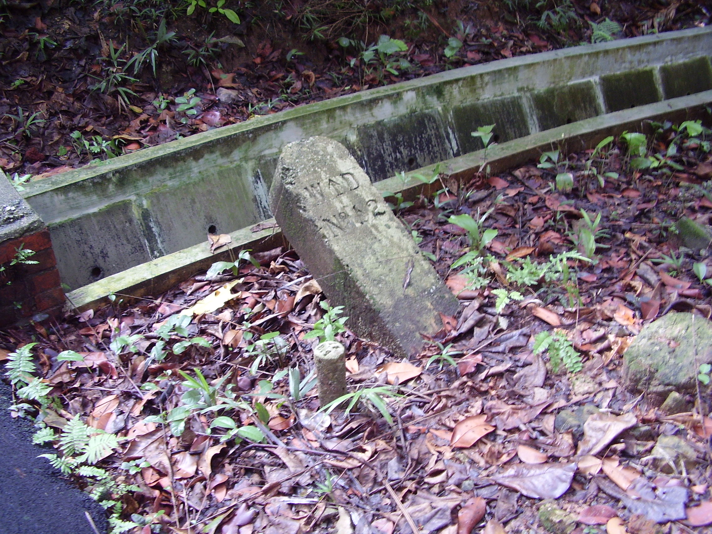 A sign beside a drain in Labrador Nature Reserve, the meaning of the wording is unknown.